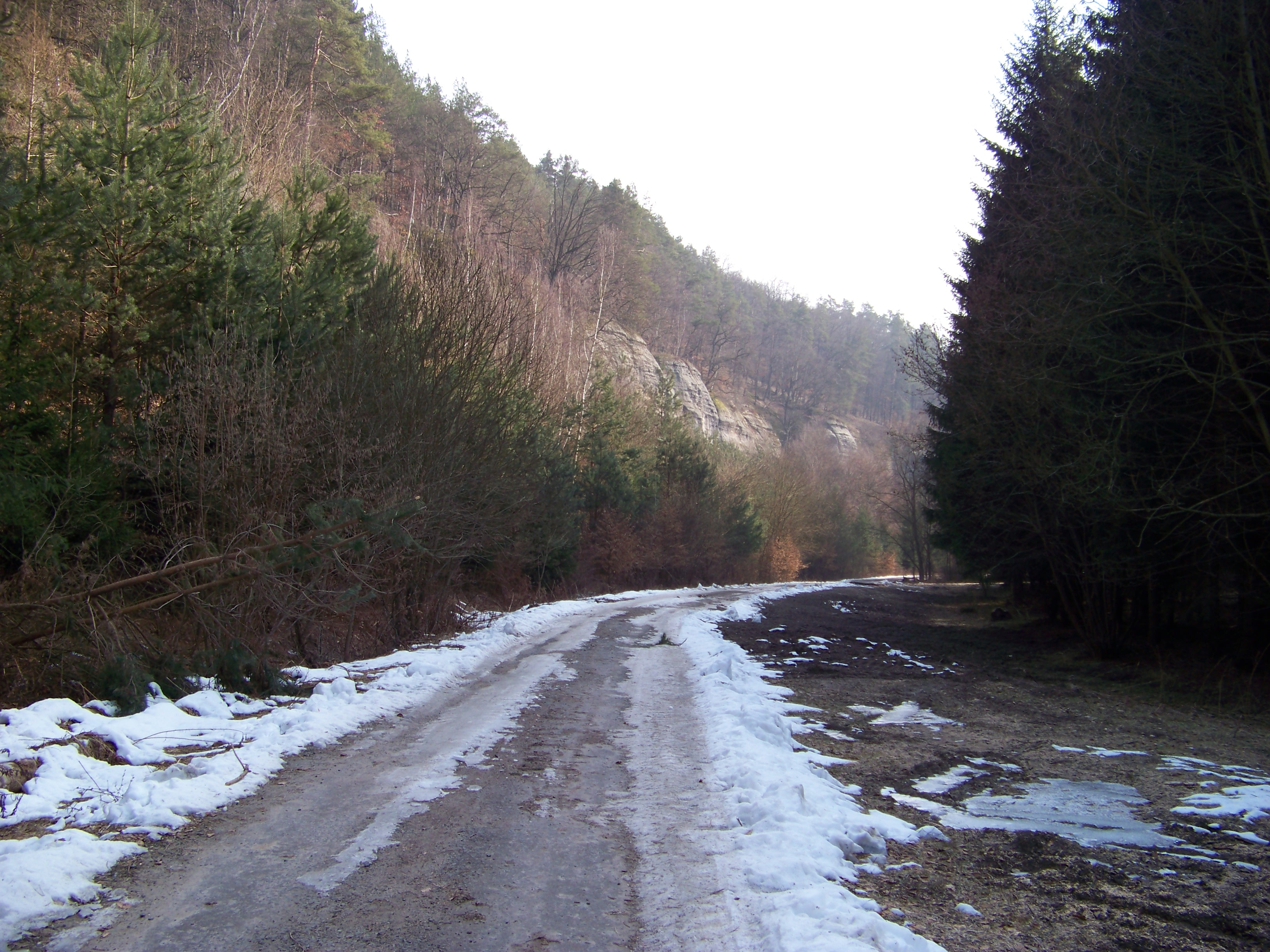 Truskavenský důl (Truskavna Valley) at the border of Vysoká and Kokořín-Truskavna, Mělník District, Central Bohemian Region, the Czech Republic. Natural monument Stráně Truskavenského dolu (sandstone rocks).